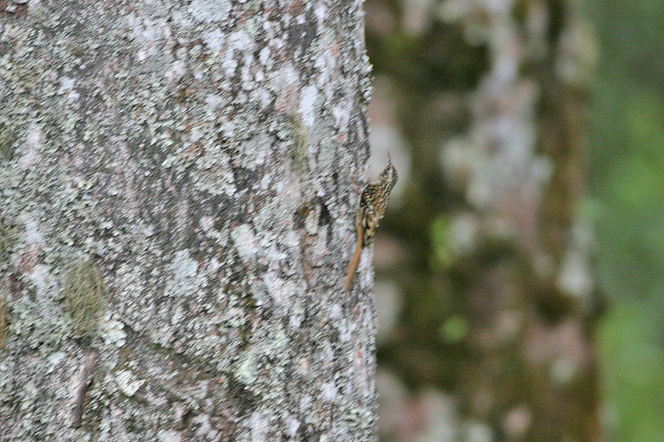 Sikkim Treecreeper Certhia discolor, between Limethang Road and Tashigang, Bhutan